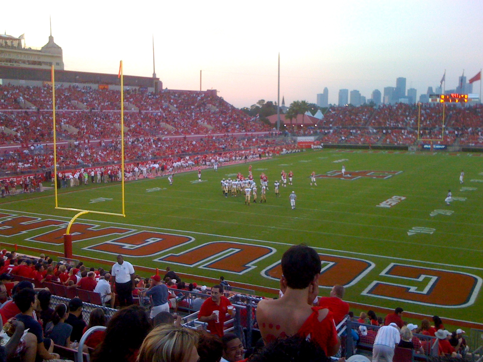 The 2010 Houston Cougars football team competing against Texas State in their season opener. The match featured the largest-ever attendance for the stadium in its current capacity.